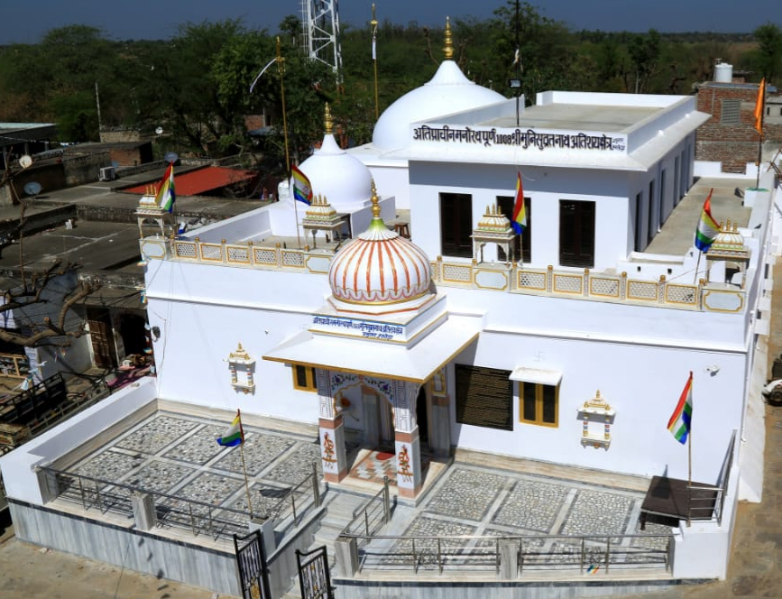 Hasteda Jain Temple